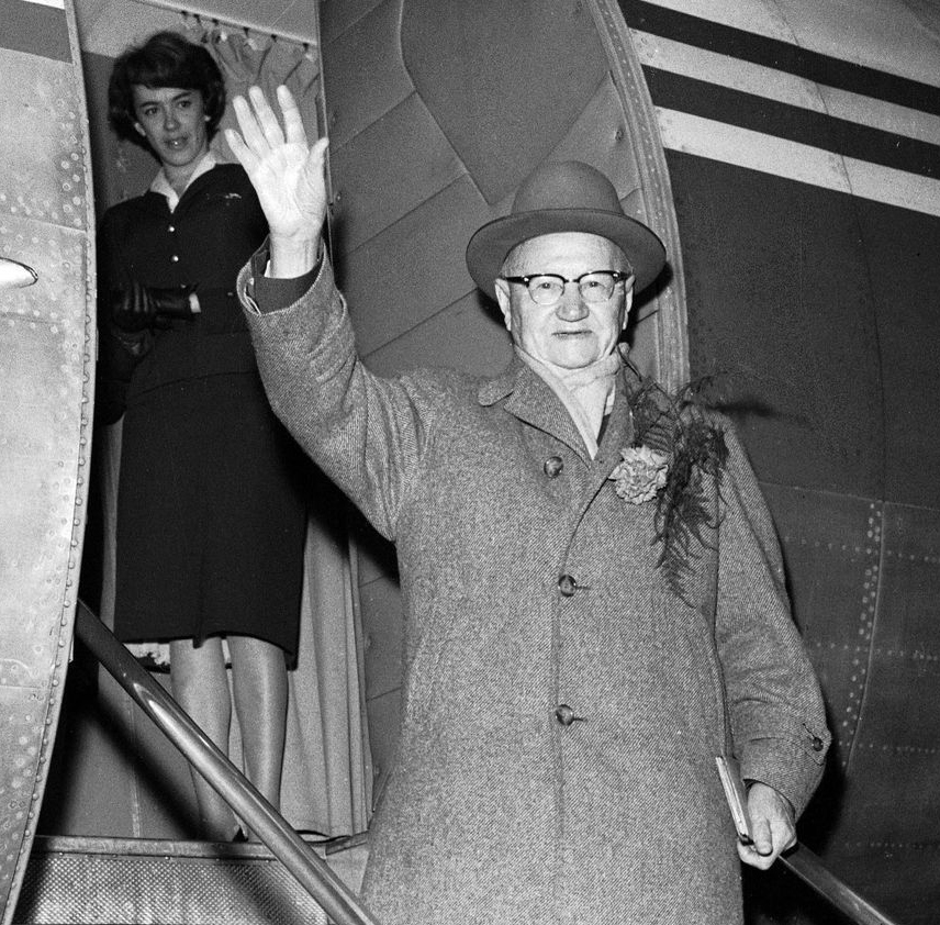 Photograph of the Finnish-American politician Oskari Tokoi (1873–1963) when he was leaving for the U.S. at Seutula airport after a visit to Finland.